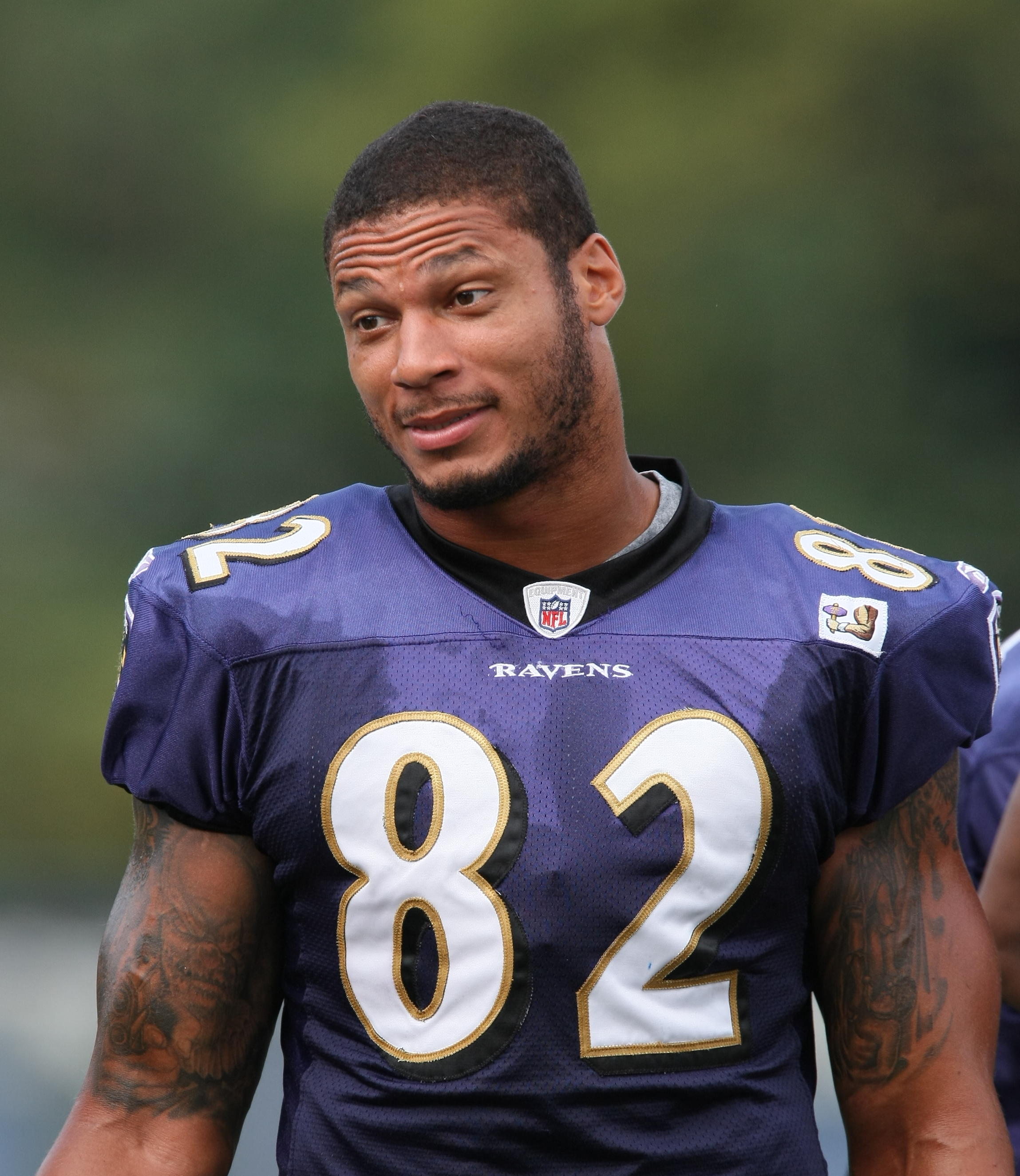 Tight end L. J. Smith during Baltimore Ravens training camp on August 22, 2009.